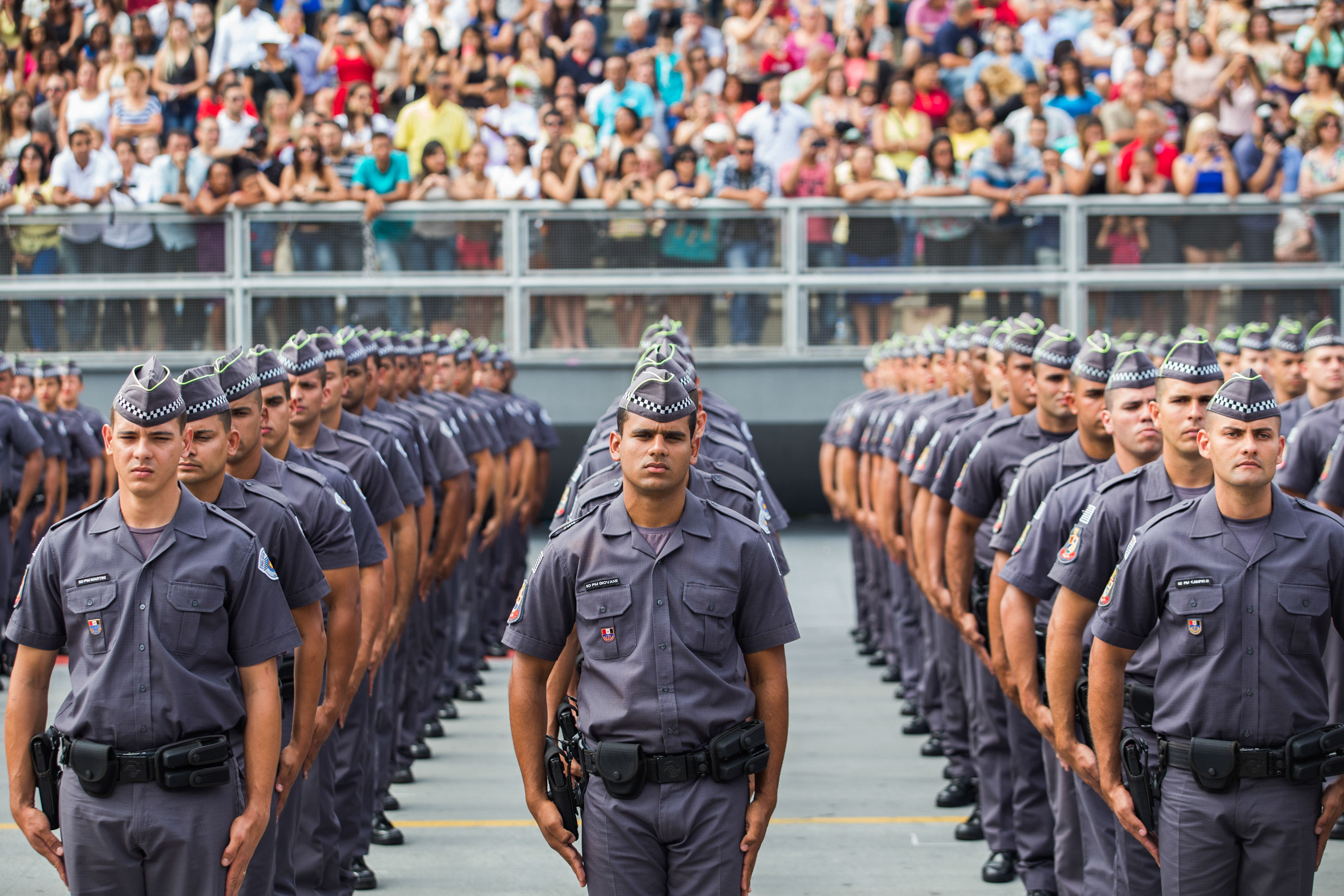 O governador Geraldo Alckmin participa da formatura de 1.598 soldados da Polícia Militar do Estado de São Paulo no Anhembi.Data: 21/11/2014. Local: São Paulo/SP.Foto: Diogo Moreira/A2 FOTOGRAFIA